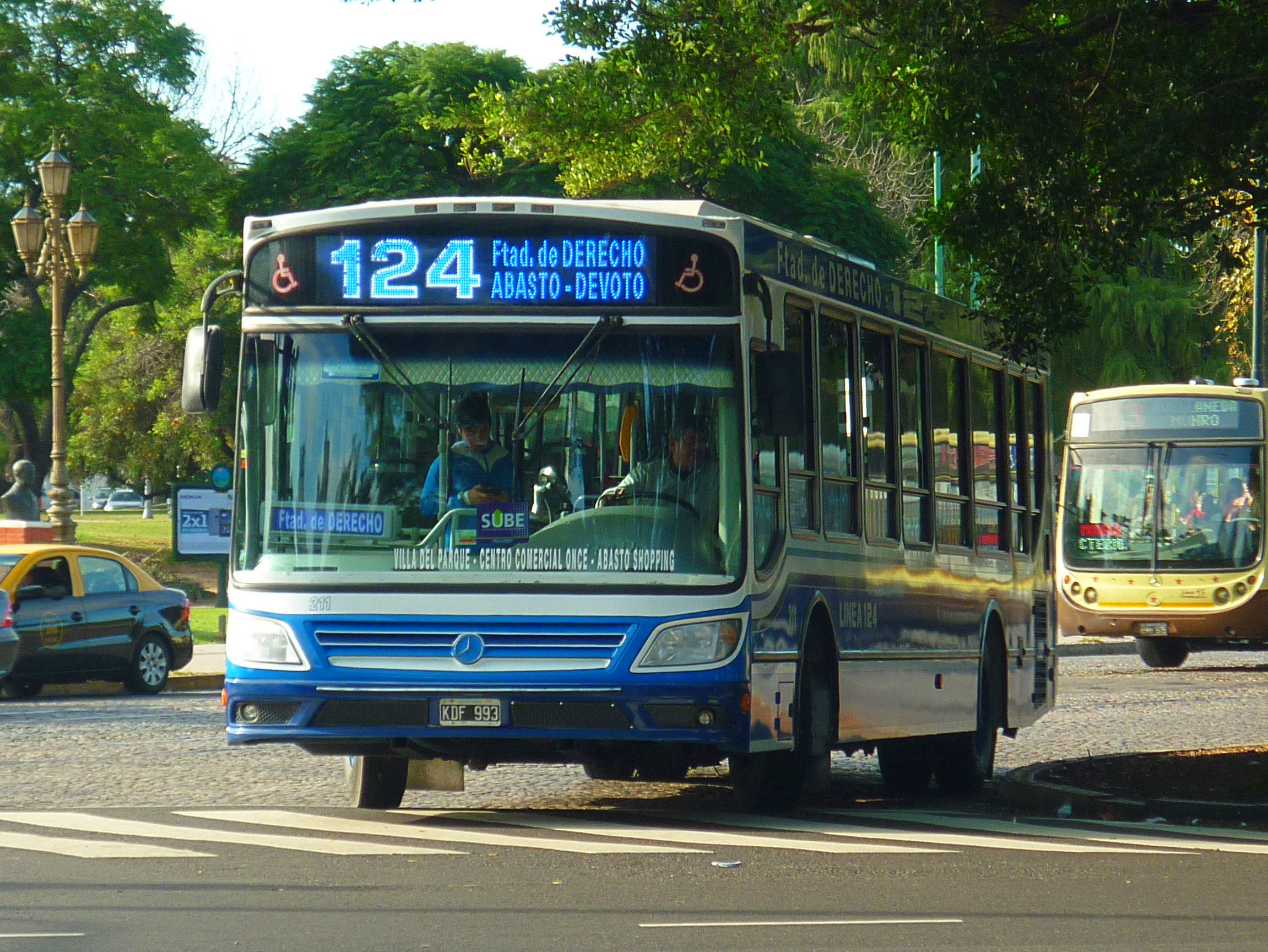 Colectivo de la línea 124 en Recoleta